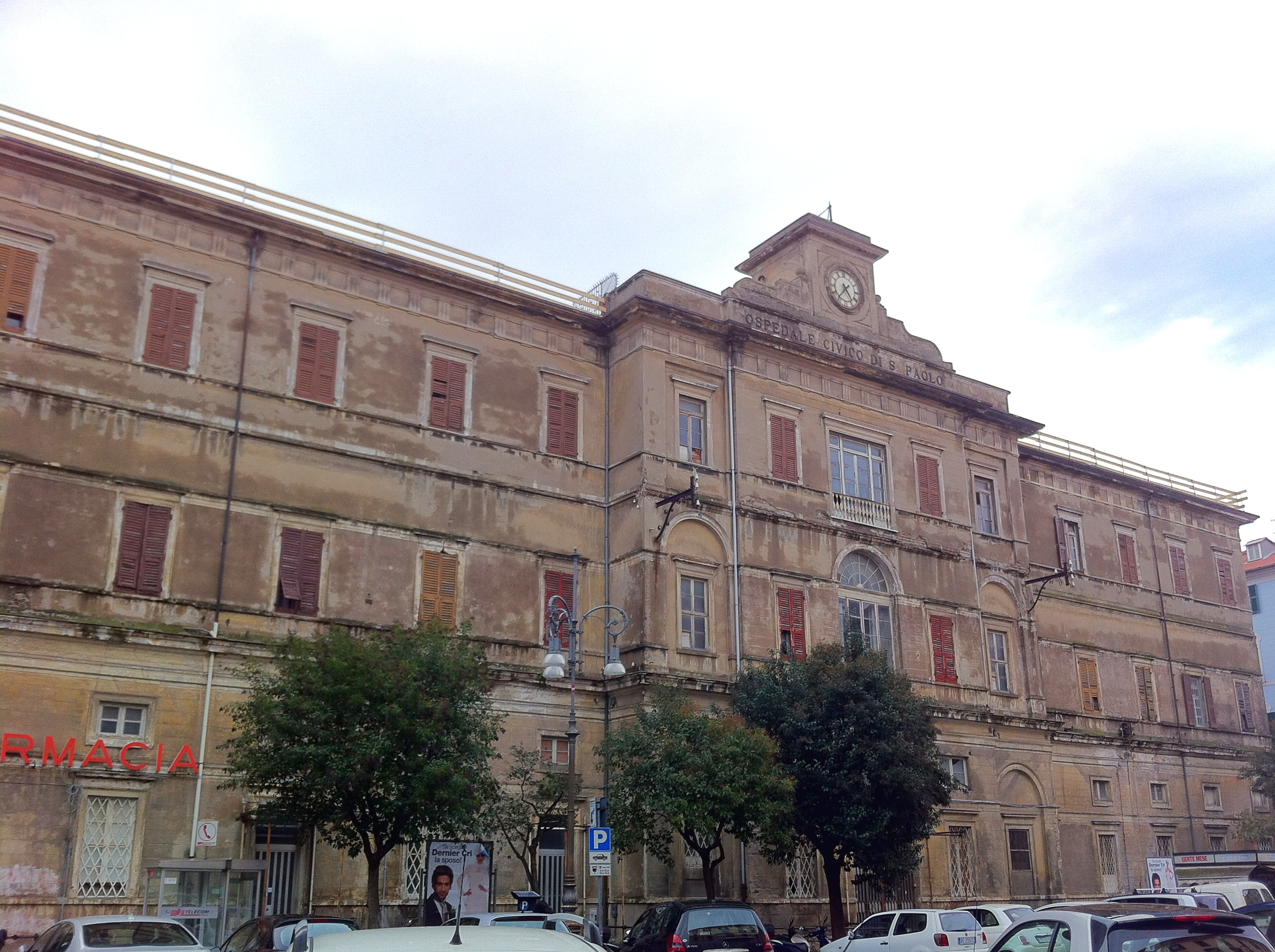 Ex saint Paul Hospital in Savona (Italy)